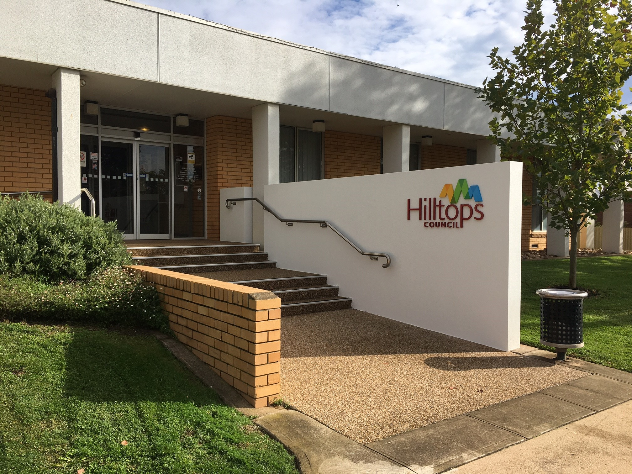 Hilltops Council Local Government Offices in Harden, NSW